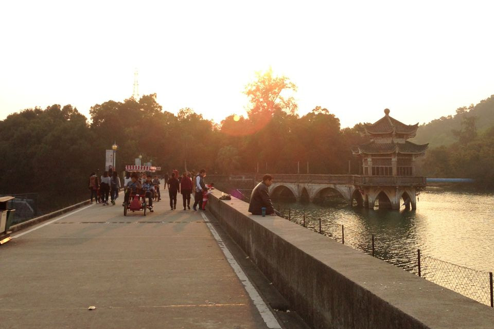 Evening walkers & bikers at Stone Flower Mountain Park